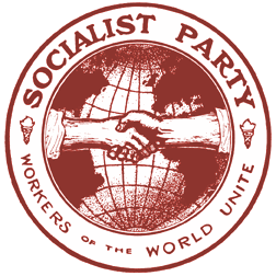 Logo of the Socialist Party of America (1901-1973)